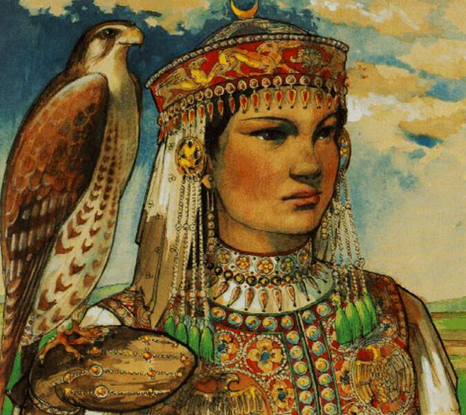 Emese's dream. Emese was the wife of Álmos, ruler of the Hungarians (reign 850-895) and mother of Árpád, first Grand Prince of Hungary (reign 895-907).